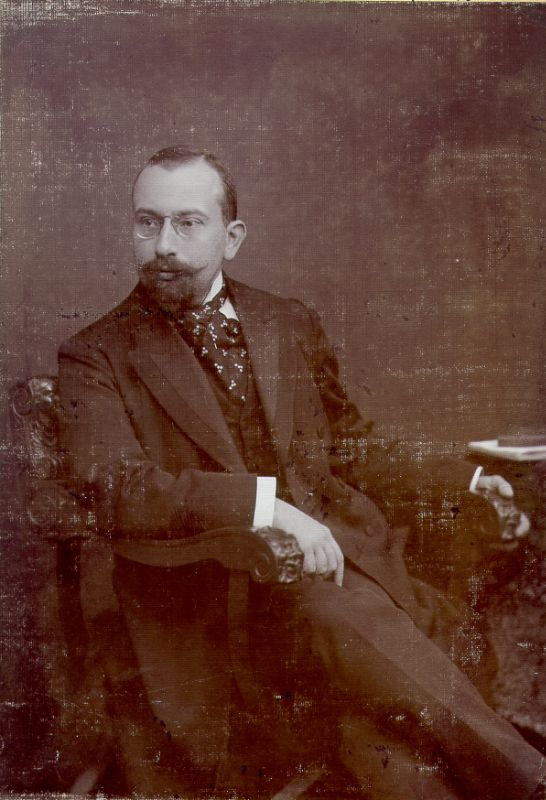 Franz Müller